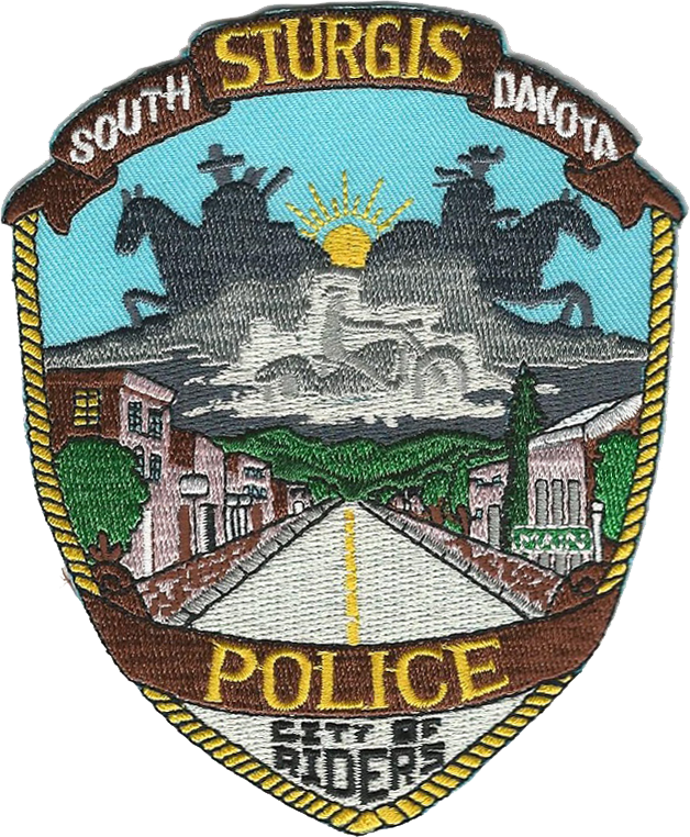 A representation of the Sturgis, South Dakota Police Patch used to identify itself to the public